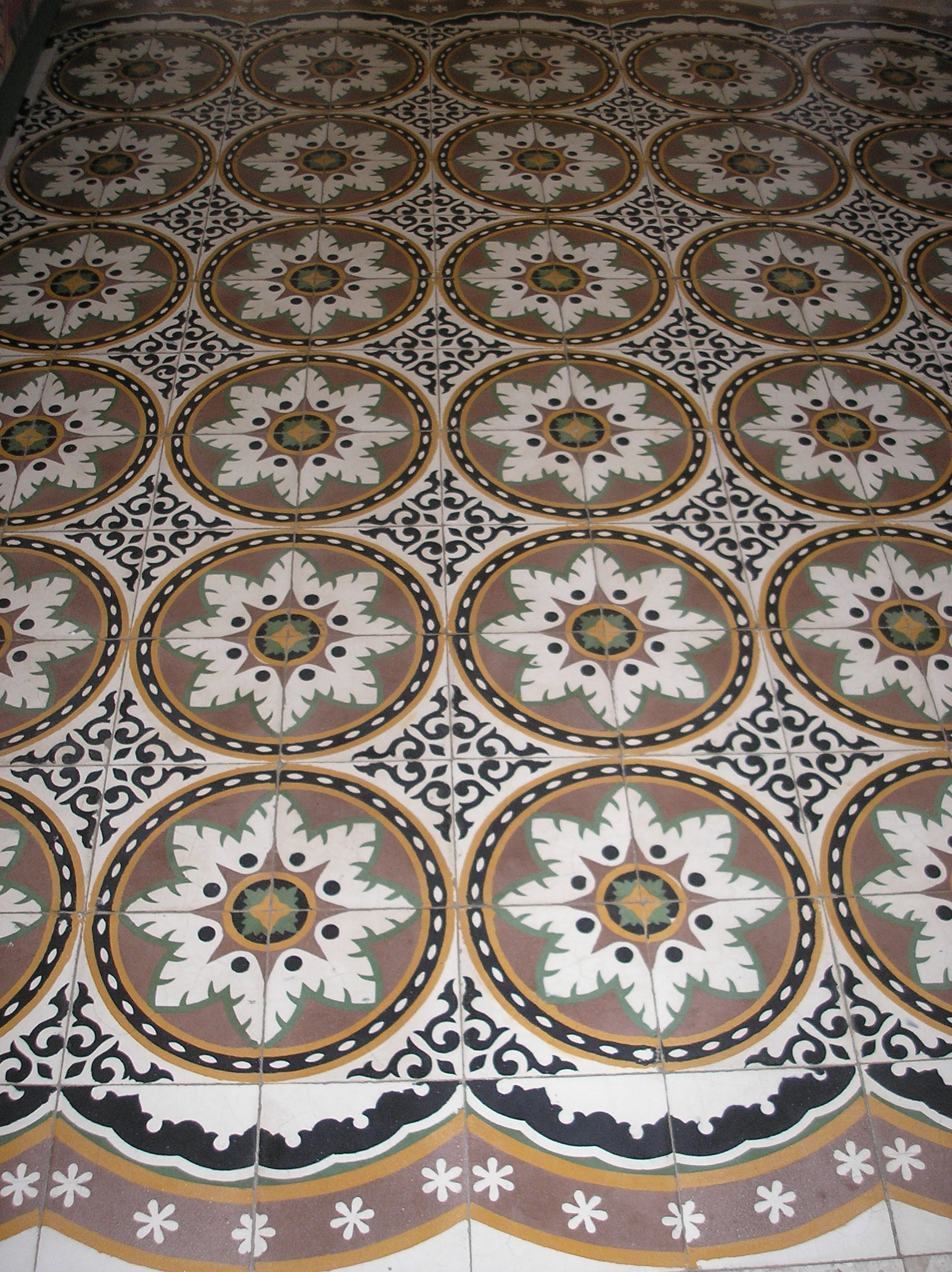 Floor paterns in a Liwan House in Katamon